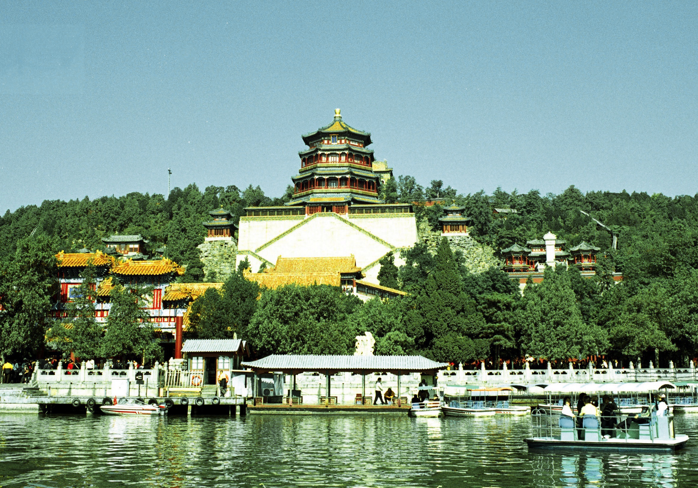 View the Pavilion of the Buddhist Incense from the Kunming Lake